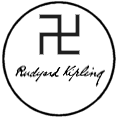 Scanned image of the swastika logo from a Rudyard Kipling book – a 1911 edition of Puck of Pook's Hill